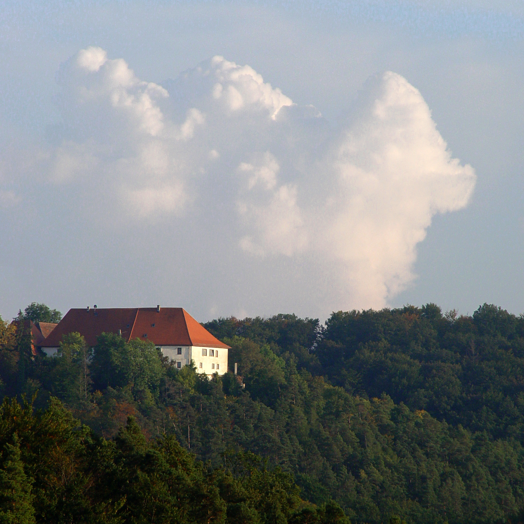 Germany. Castle Hoenentringen sitting on the boarder of the Schönbuch.